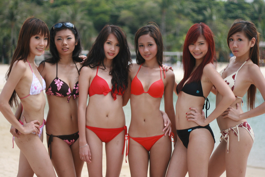 Asian Models Yuki, Krislynn, Pearl, Tricia, Sherlyn, Karen at Tanjong Beach, Sentosa Resort Island - Singapore